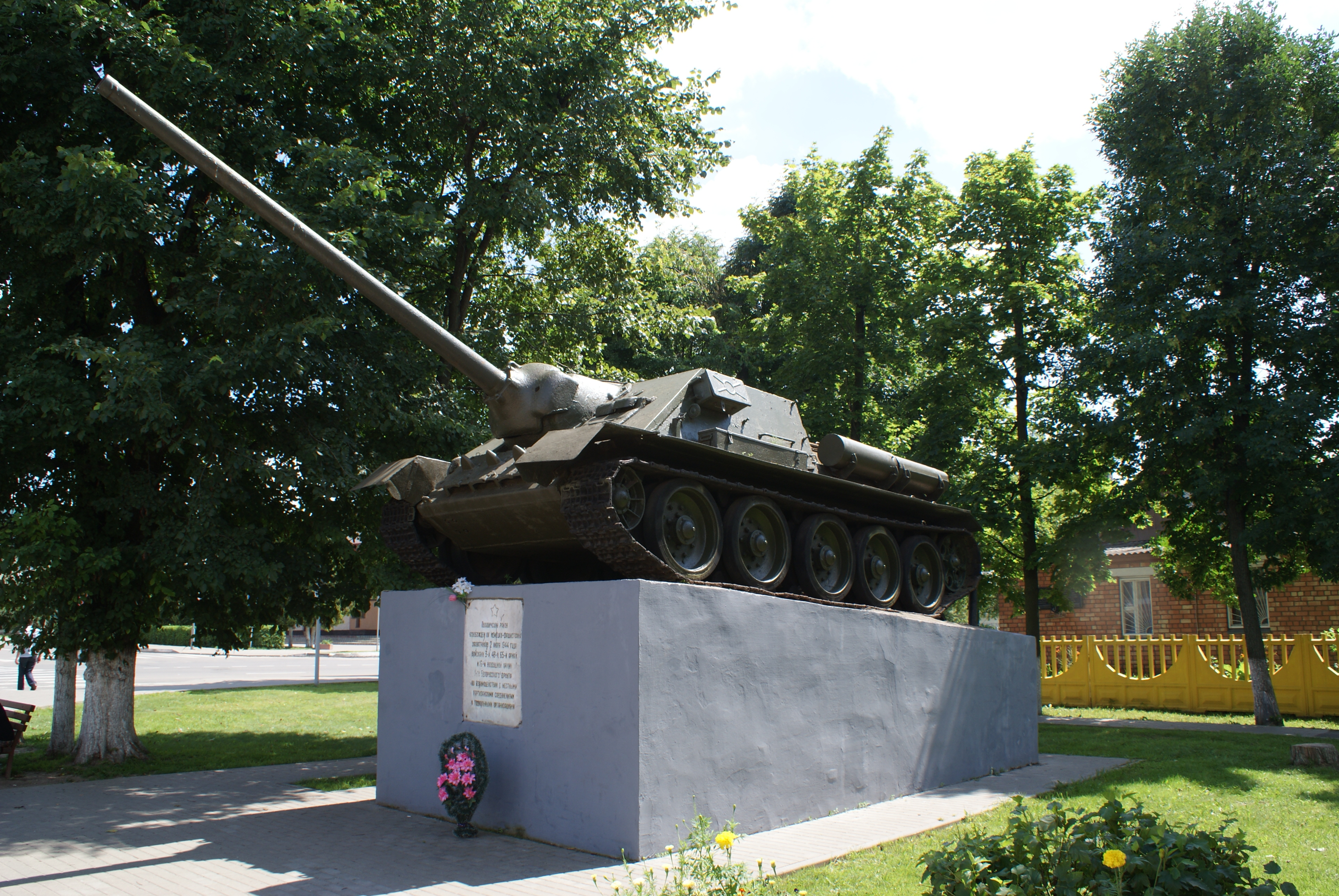 Monument in Mar'ina Horka